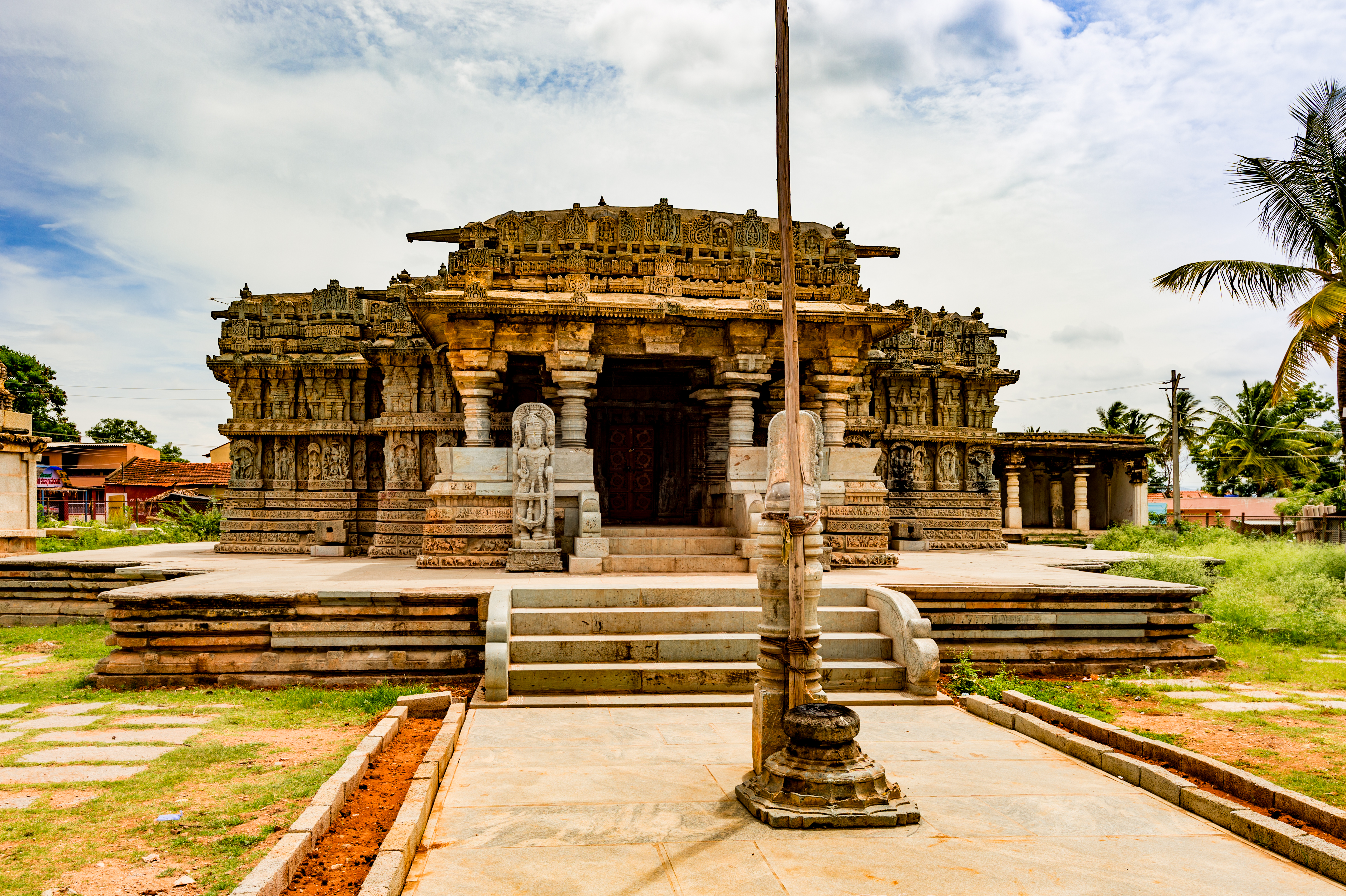 Hoysala Architechtures